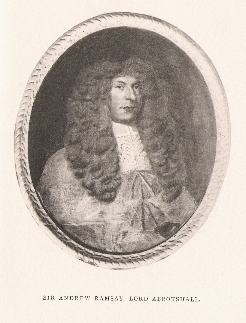 Scan of an engraving of a painting still in the possession of the Dick Lauder family. Engraving appears in Journals of Sir John Lauder, Lord Fountainhall, Scottish History Society, Edinburgh, 1900, which is out of copyright. David Lauder 19:31, 14 February 2007 (UTC)